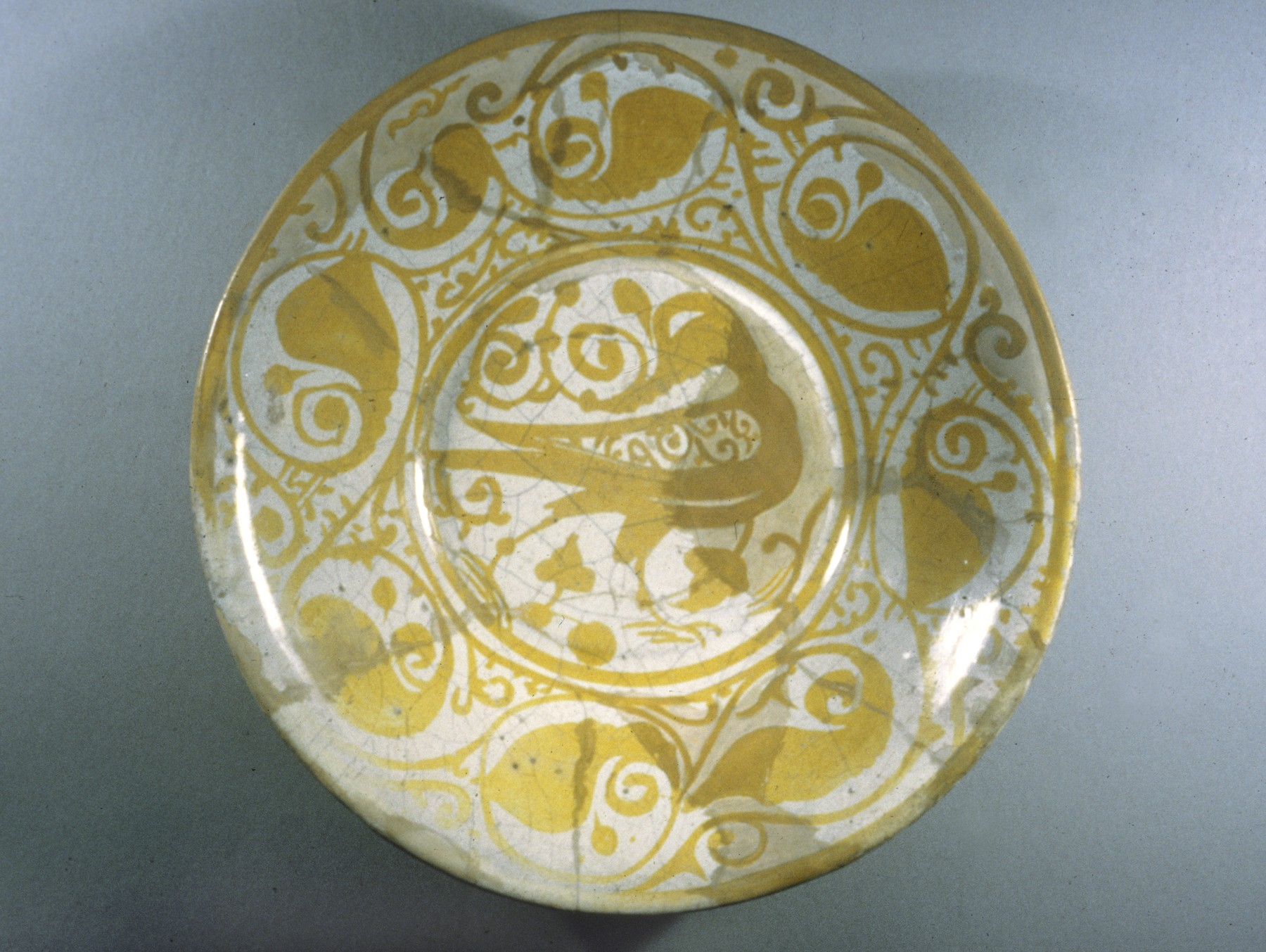 Decorative lusterware was popular during the Fatimid Period (910-1171). The most important production place was in the cultural center of al-Fustad near the Fatimid capital al-Qahira (Cairo). This plate displays a typical motif of this time period: a bird in a central roundel with leaves and branches and a broad frame with leaf arabesques. Especially attractive are the variation of forms of the leaves and spiral-tendrils, which modify the rhytmic pattern, and the yellow-golden color of the painting.